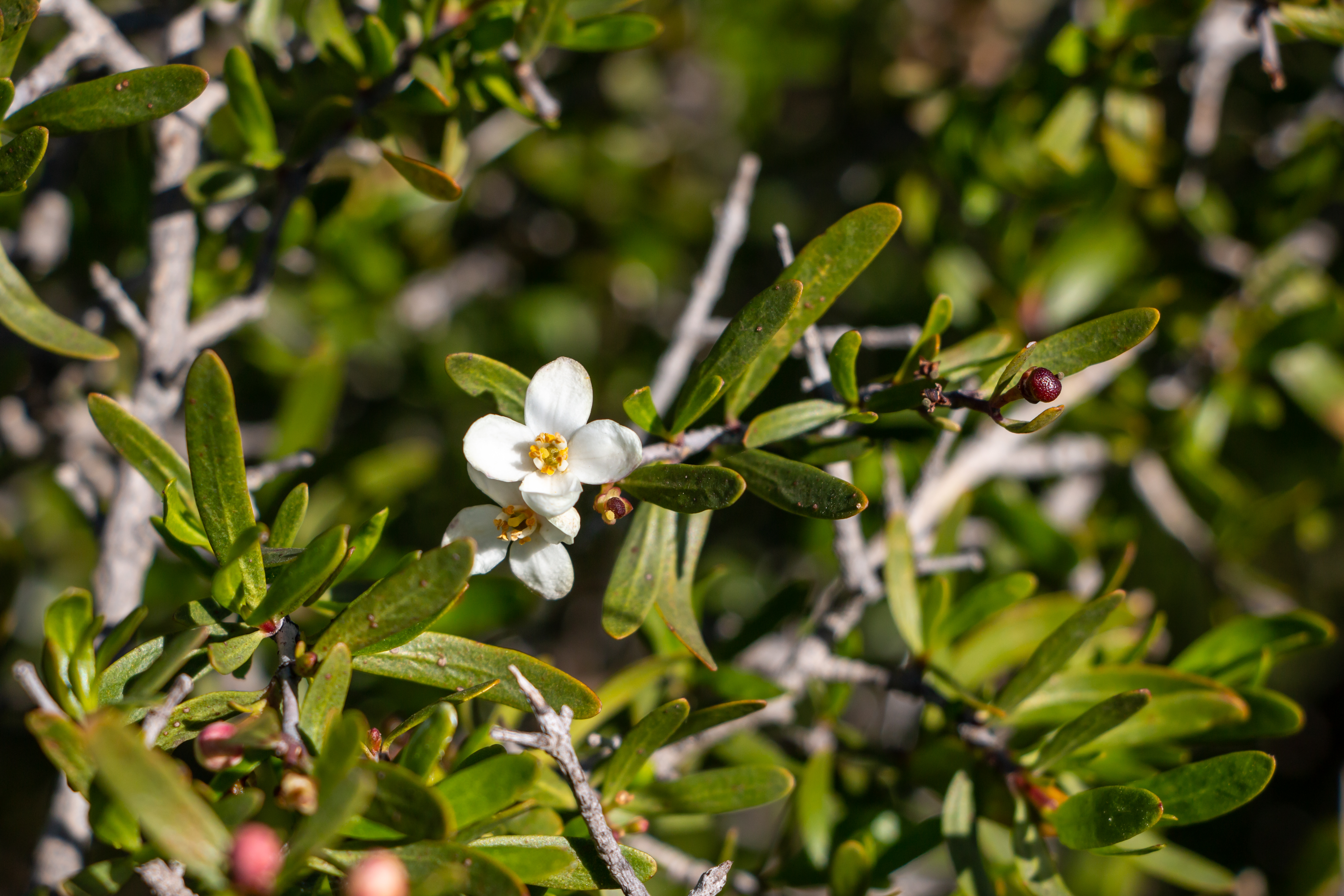 C. dumosum flower with two coleopteras